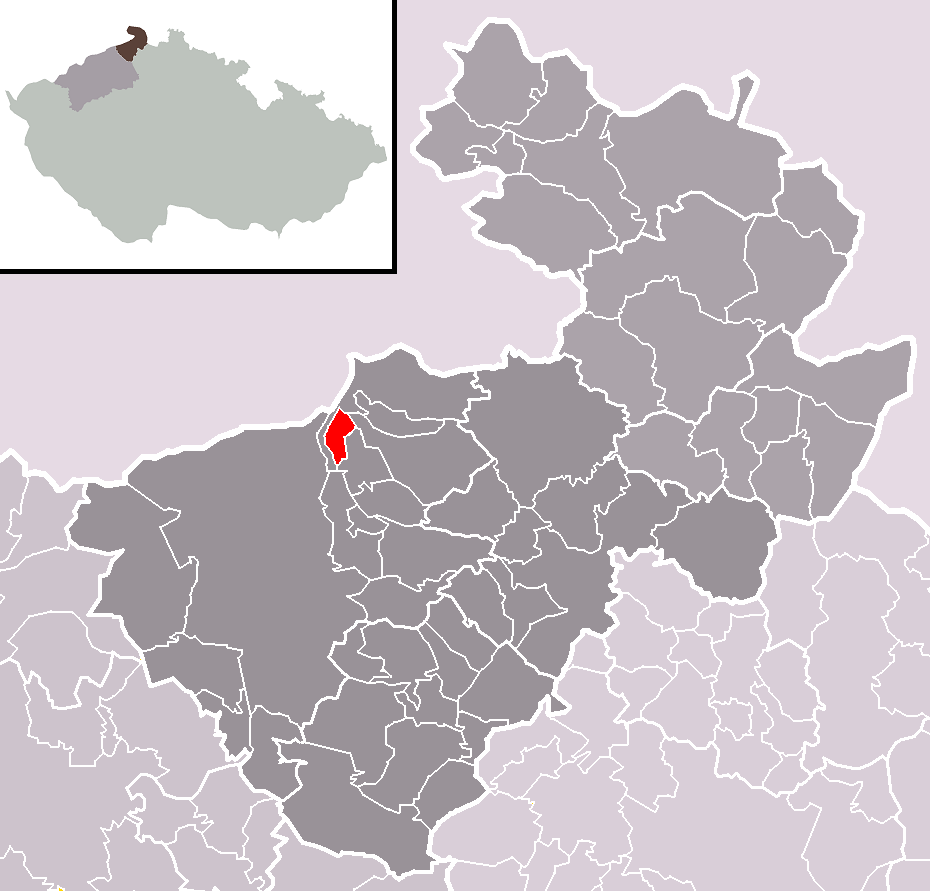 Location of Labská Stráň municipality within Děčín District and administrative area of Děčín as a Municipality with Extended Competence.